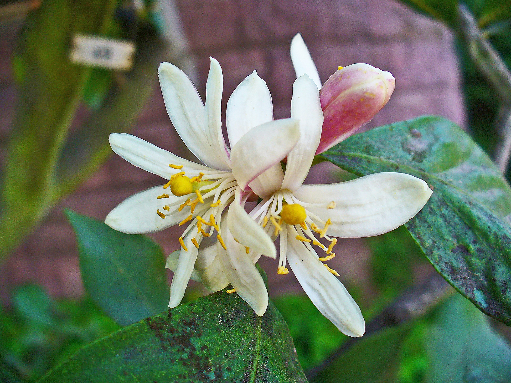 Citrus medica, Rutaceae, Citron, flowers; Botanical Garden Karlsruhe, Germany.